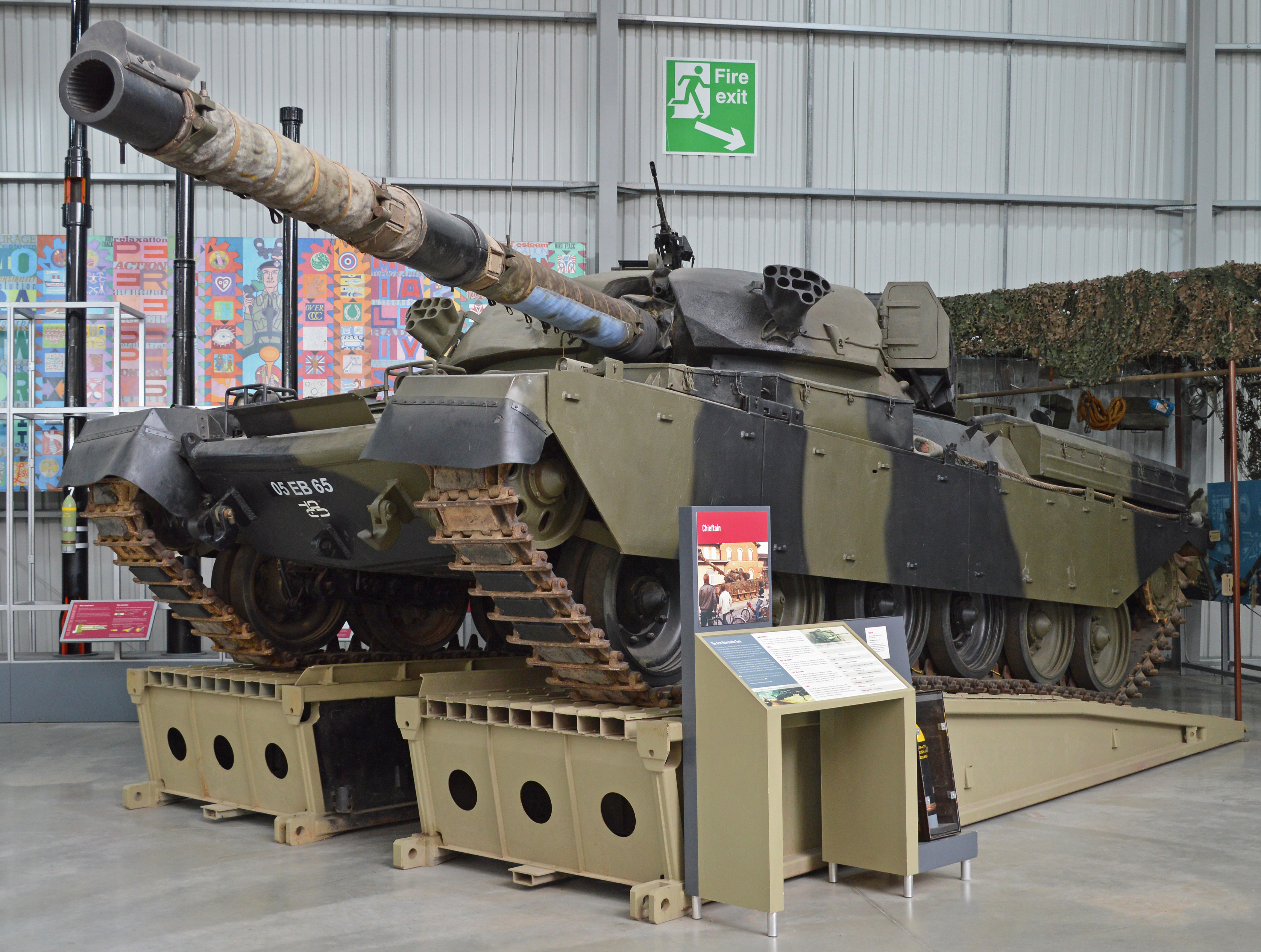 Official designation:- FV4201 Chieftain Mark 11C Main Battle Tank. British registration ’05 EB 65’ The Chieftain was Britain’s Main Battle Tank from 1965 until 1995 when it was replaced by the Challenger 1. When introduced to service the specification of its gun and armour led to it being referred to as the “most formidable MBT in the world”. This example saw British Army of the Rhine (BAOR) service between 1969 and 1985 (at least) before becoming a gate guard at the Bovington based Armoured Trials and Development Unit (ATDU) between 1989 and 1998. It is now preserved and on display in the Tank Story Hall at The Tank Museum, Bovington, Dorset, UK. 26th July 2016